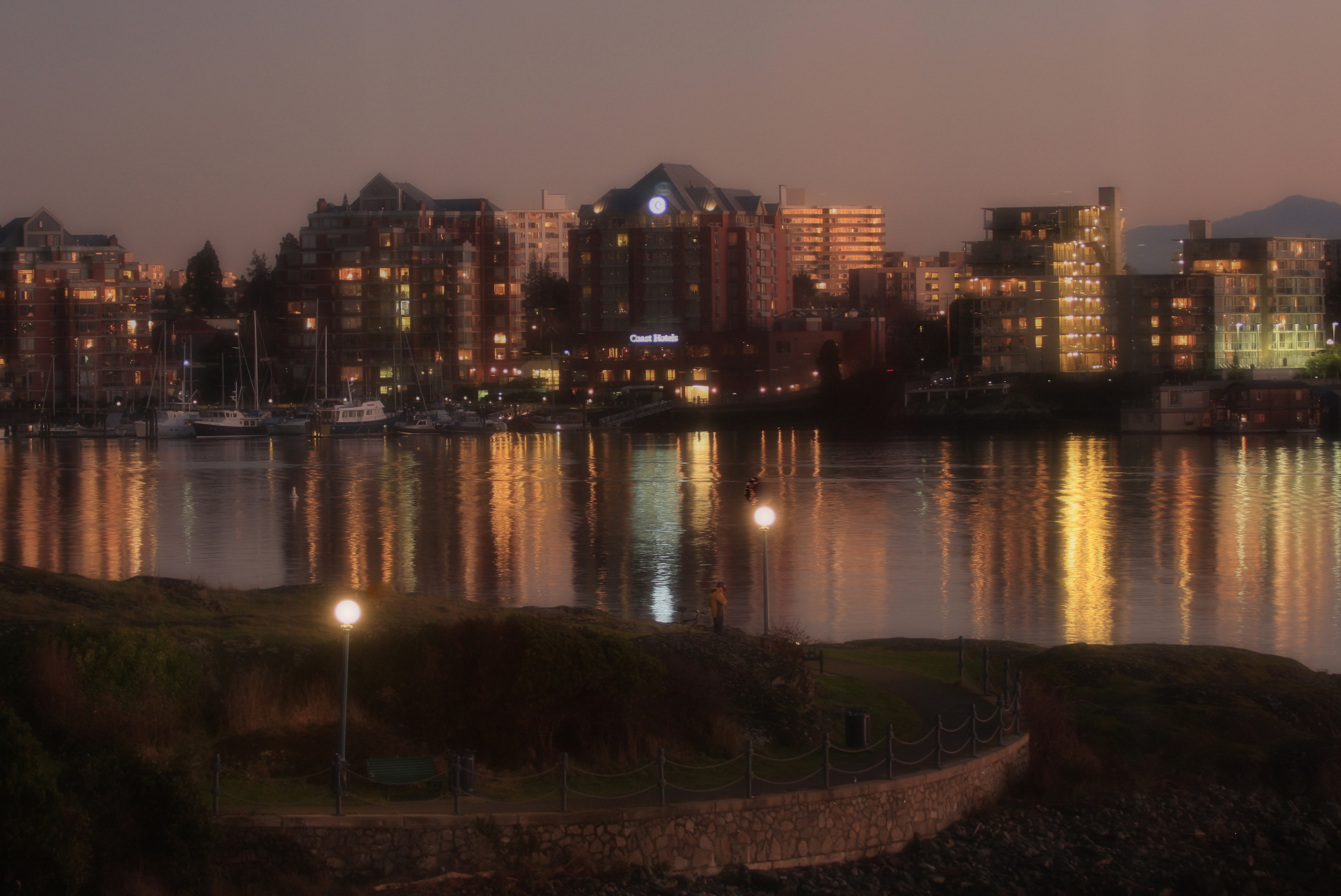 The following is the author's description of the photograph quoted directly from the photograph's Flickr page. "As usual thankyou for viewing and commenting on my photos. "